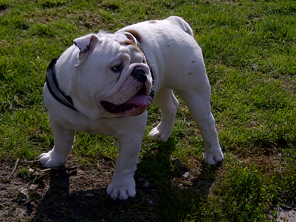 Bo, our white-red purebred studdog